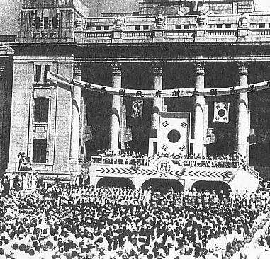 Ceremony inaugurating the government of the Republic of Korea